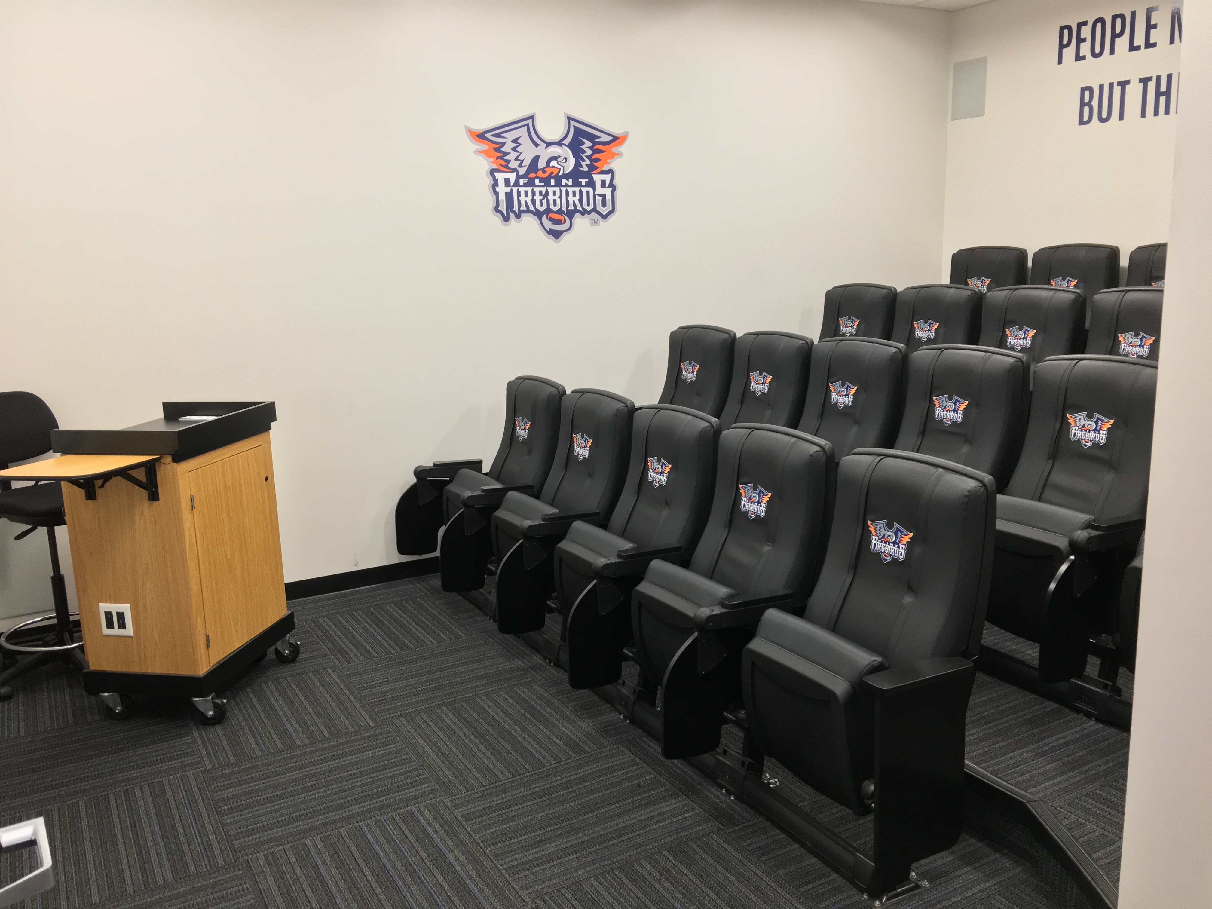 Video Theatre in Flint Firebirds Dressing Room